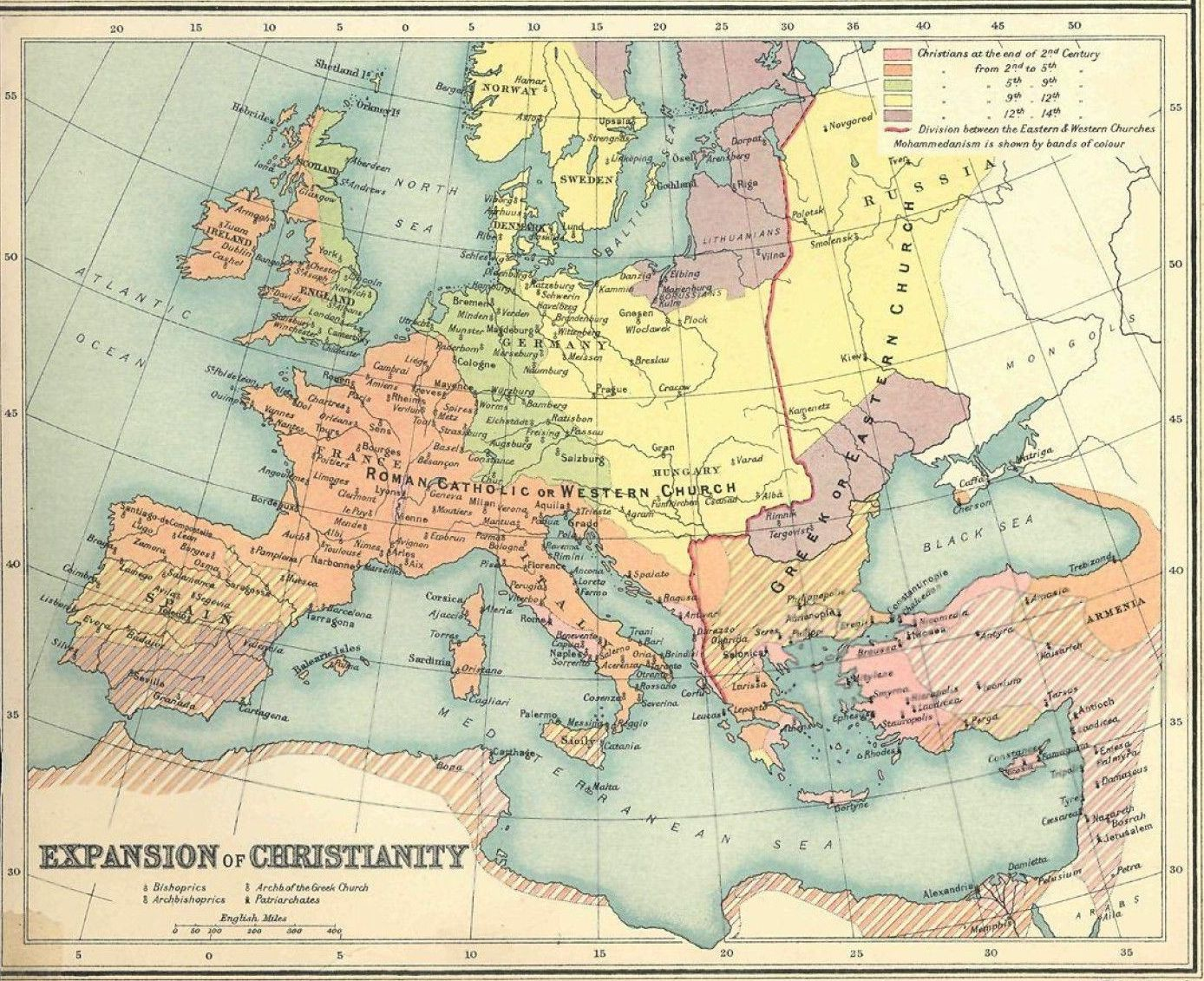 Expansion of christianity (public domain map)